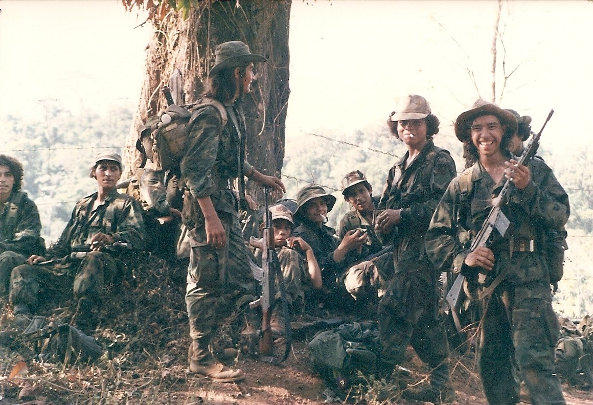 ARDE Frente Sur Commandos take a smoke break after routing FSLN base at El Serrano. Southeast Nicaragua 1987.